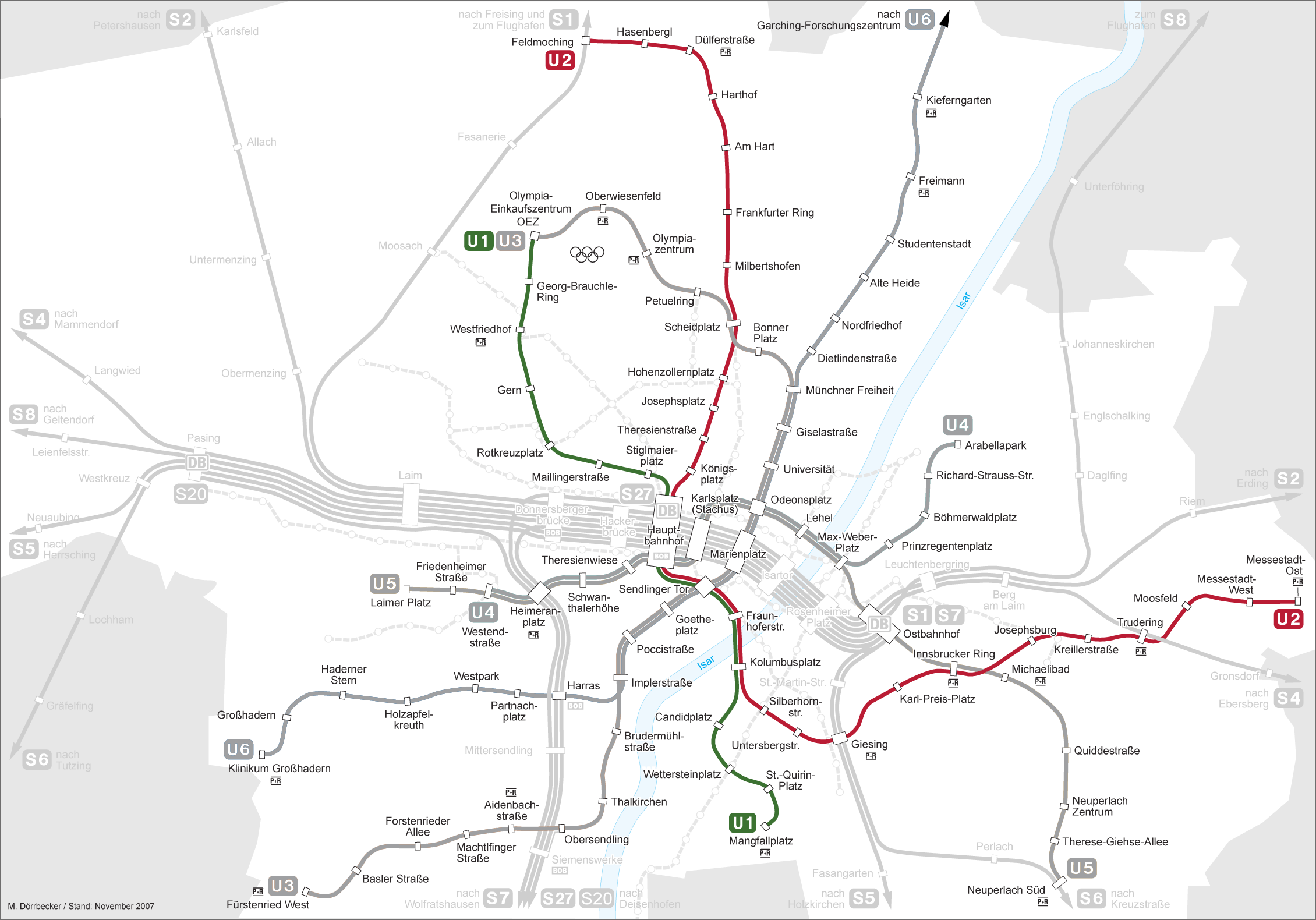 Topographical underground network map of Munich 2008